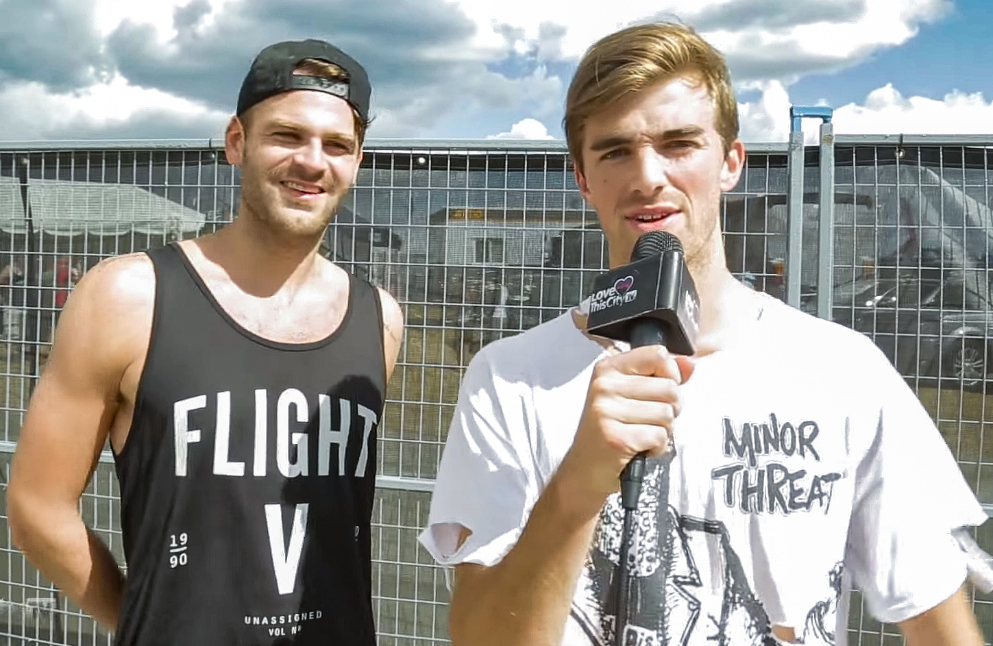 The Chainsmokers doing an interview with Love This City TV